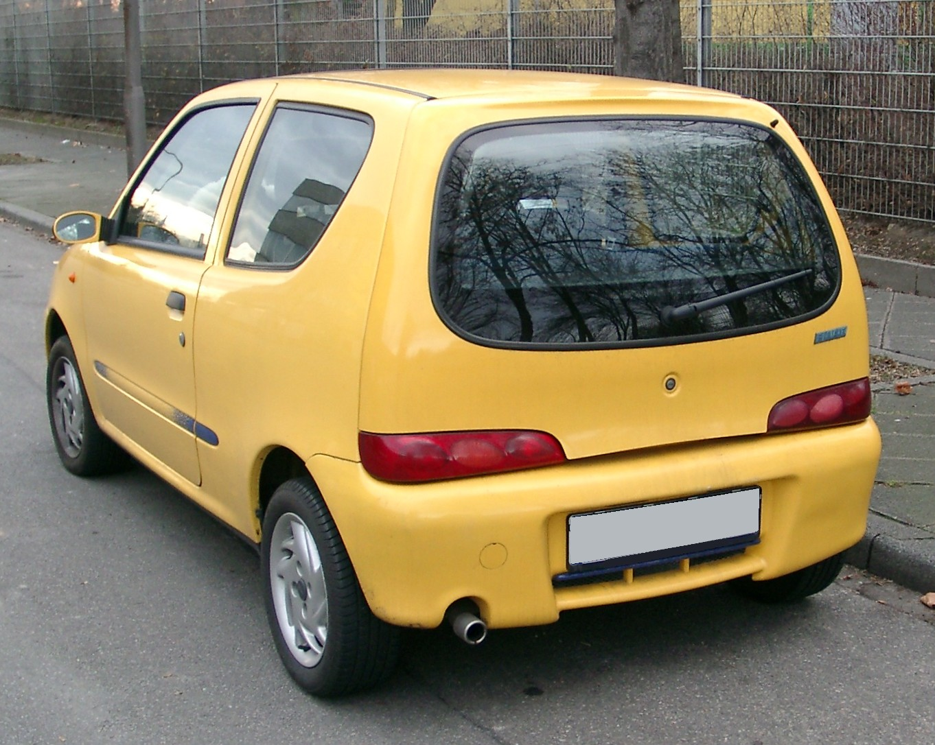 Fiat Seicento Sporting car in Germany.